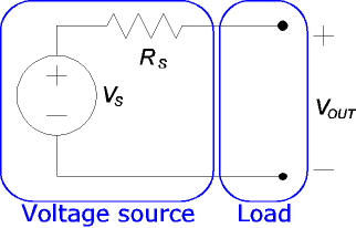 Created by Smack (talk) using Micrografx Designer [sic] software. Source file available upon request, in any of several file formats supported by Micrografx.